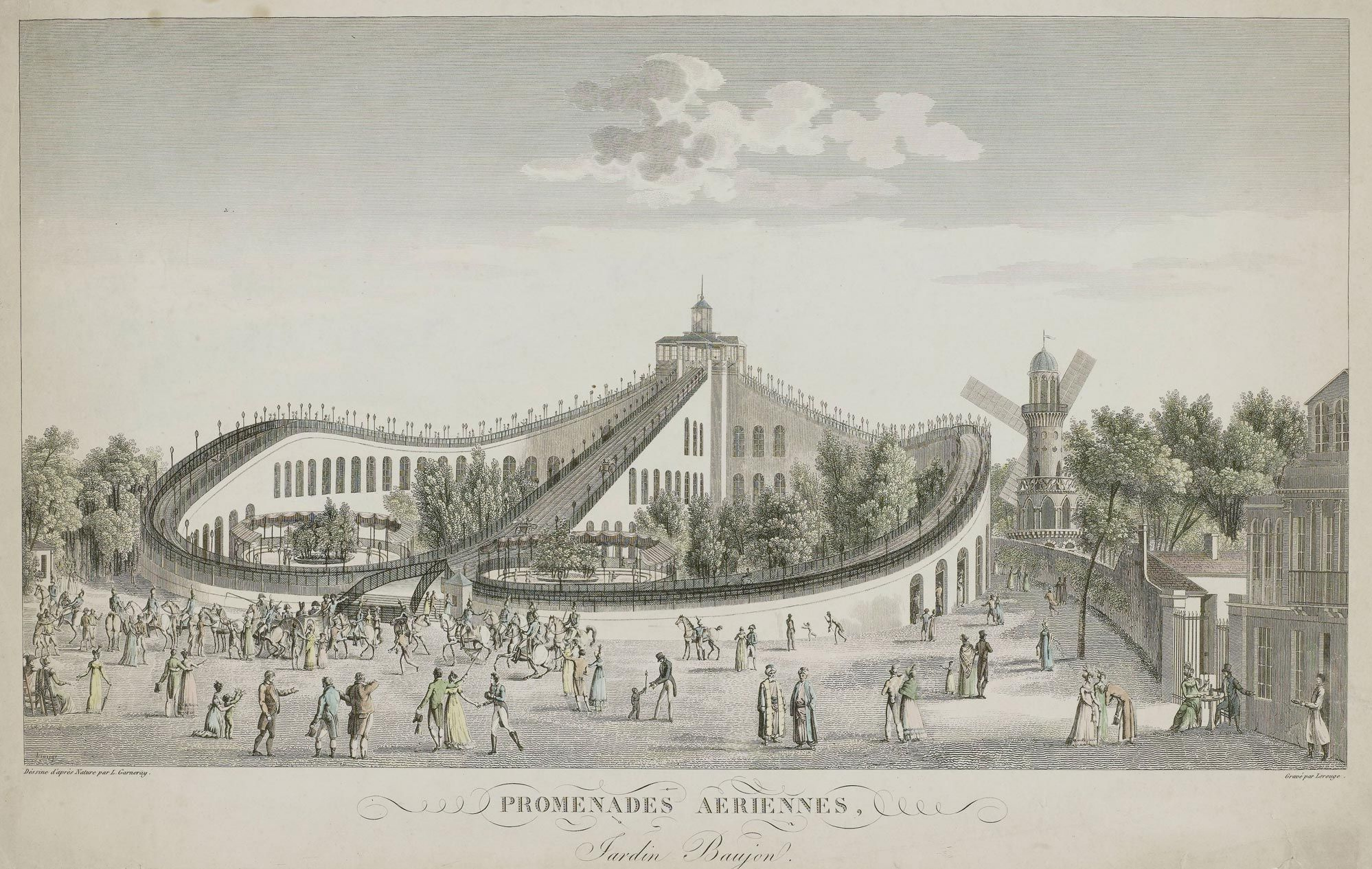 Promenades Aeriennes, Jardin Baujon (roller coaster at the Folie Beaujon) Paris, c. 1820. Etching, 25 x 45 cm